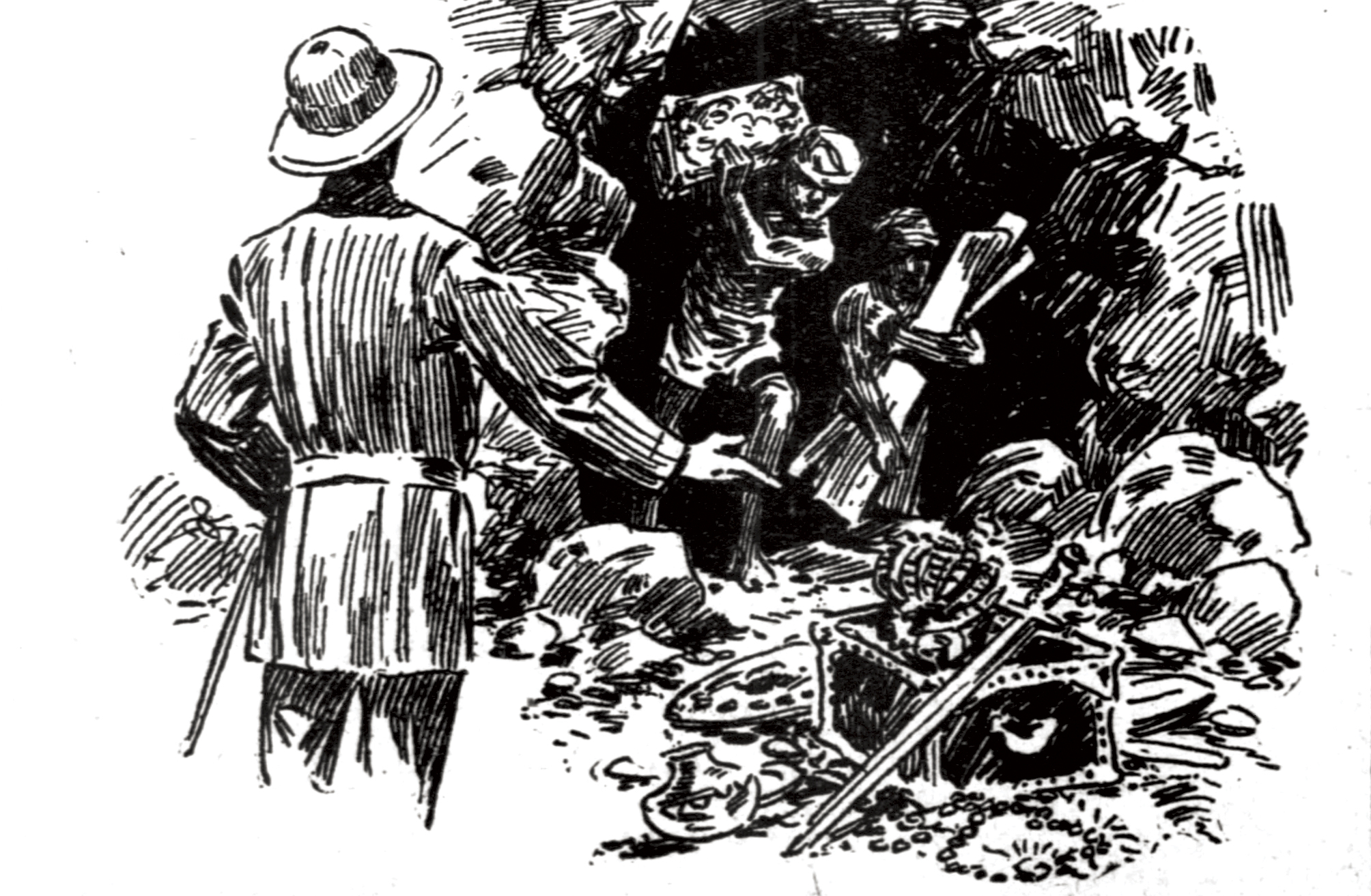 Article published by The Washington Herald.